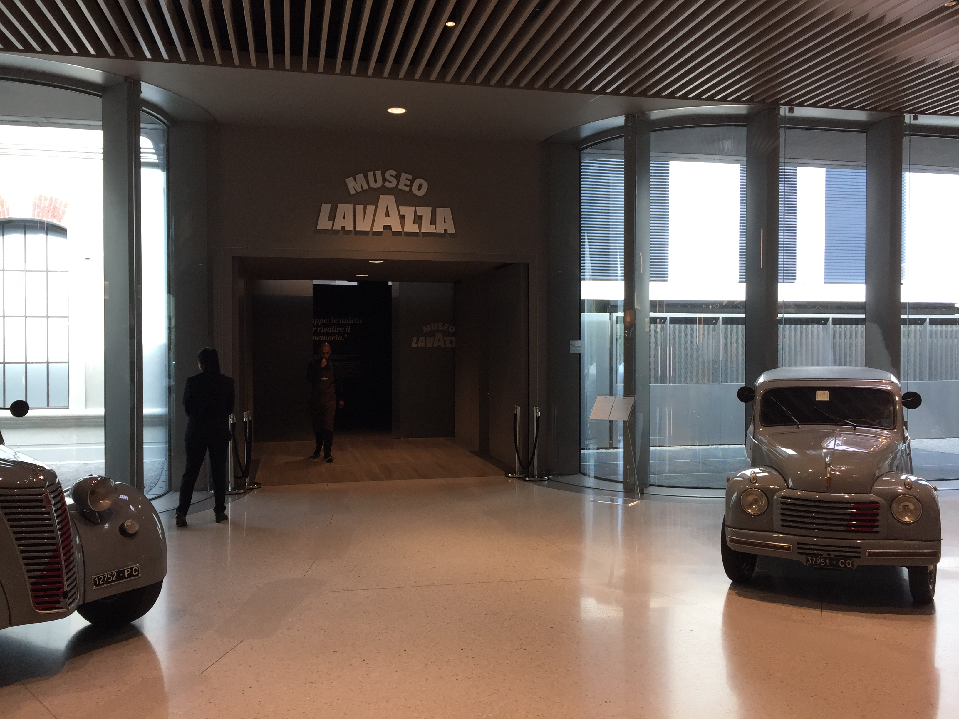 Museo Lavazza Entry